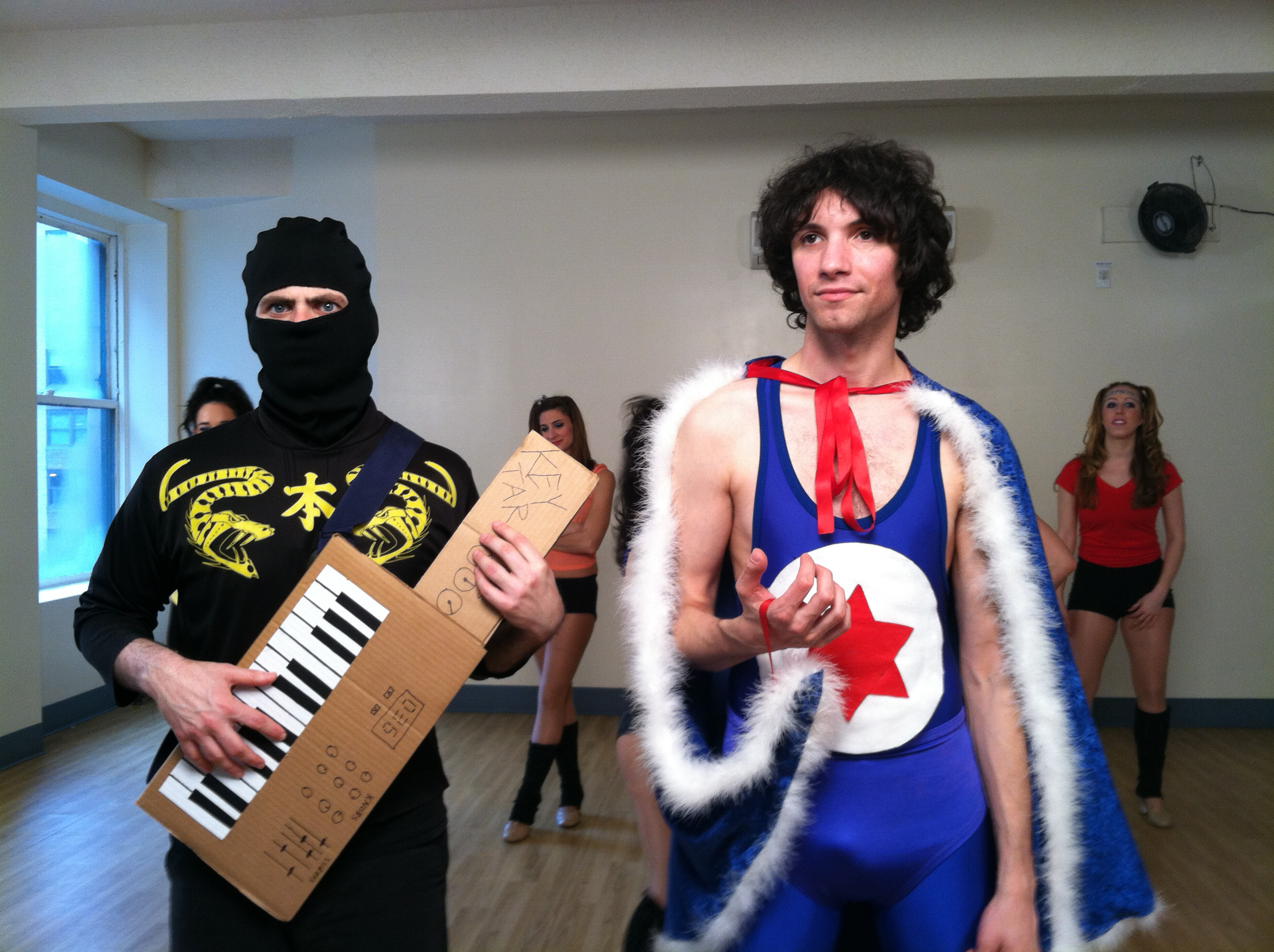 This is a picture of the two members of comedy band Ninja Sex Party, along with several background dancers from The Spangles, during the filming of their video Next To You